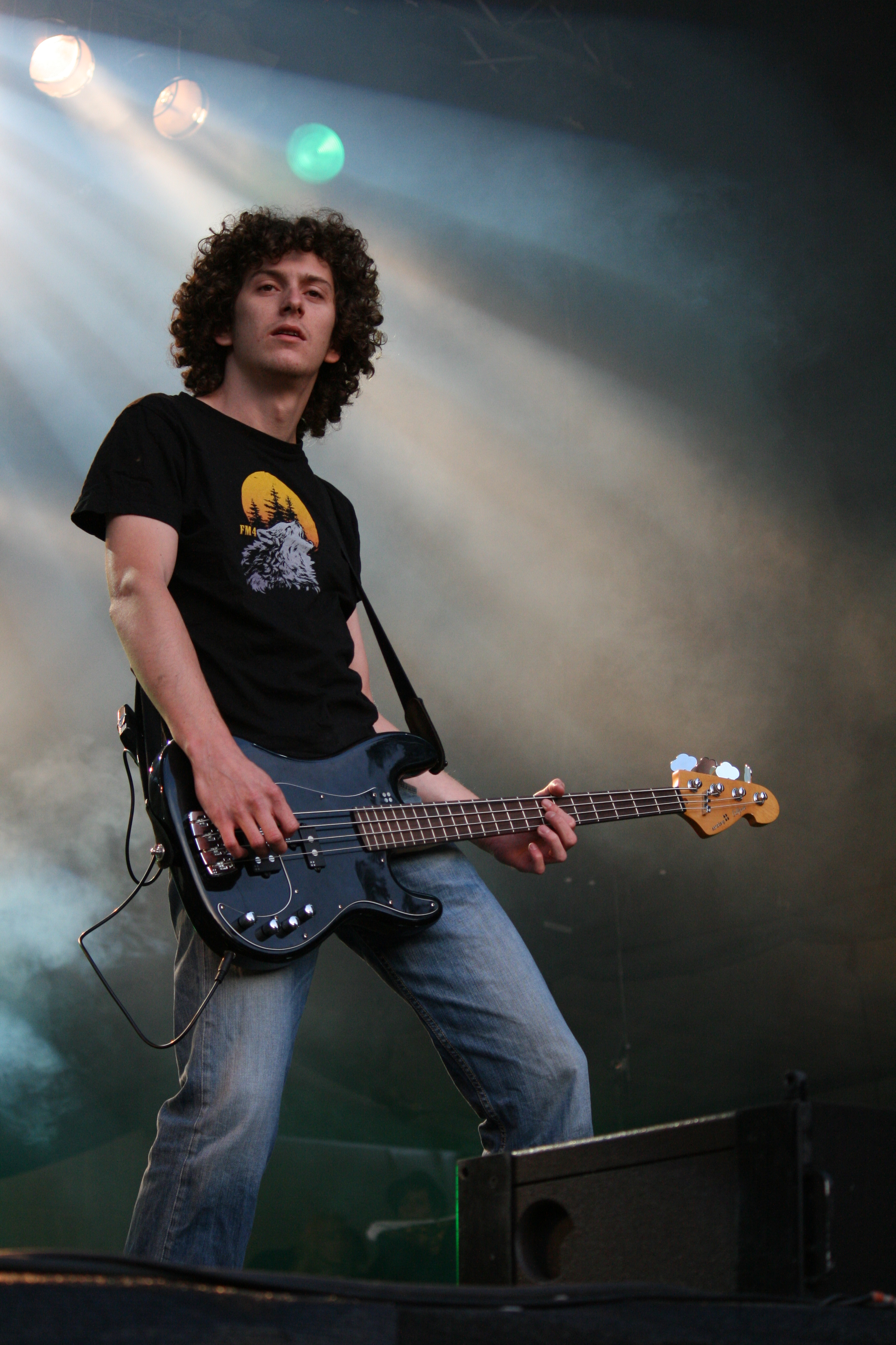 Niko Maurer, bass player of the German band Madsen at the Berlin 08 festival.